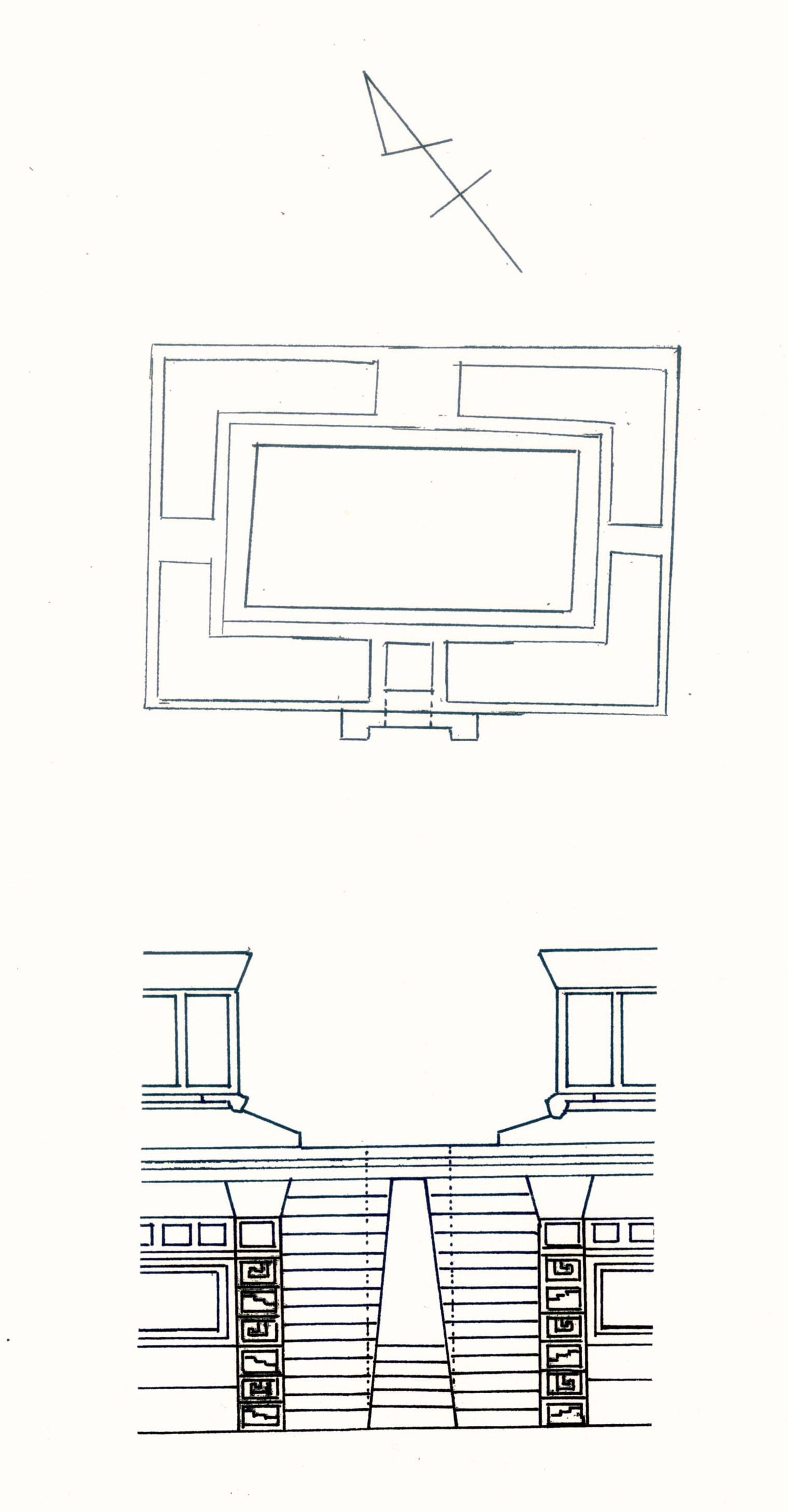 drew with ruler referrd to some figures appeared in Wilkerson,Jeffrey K.1986